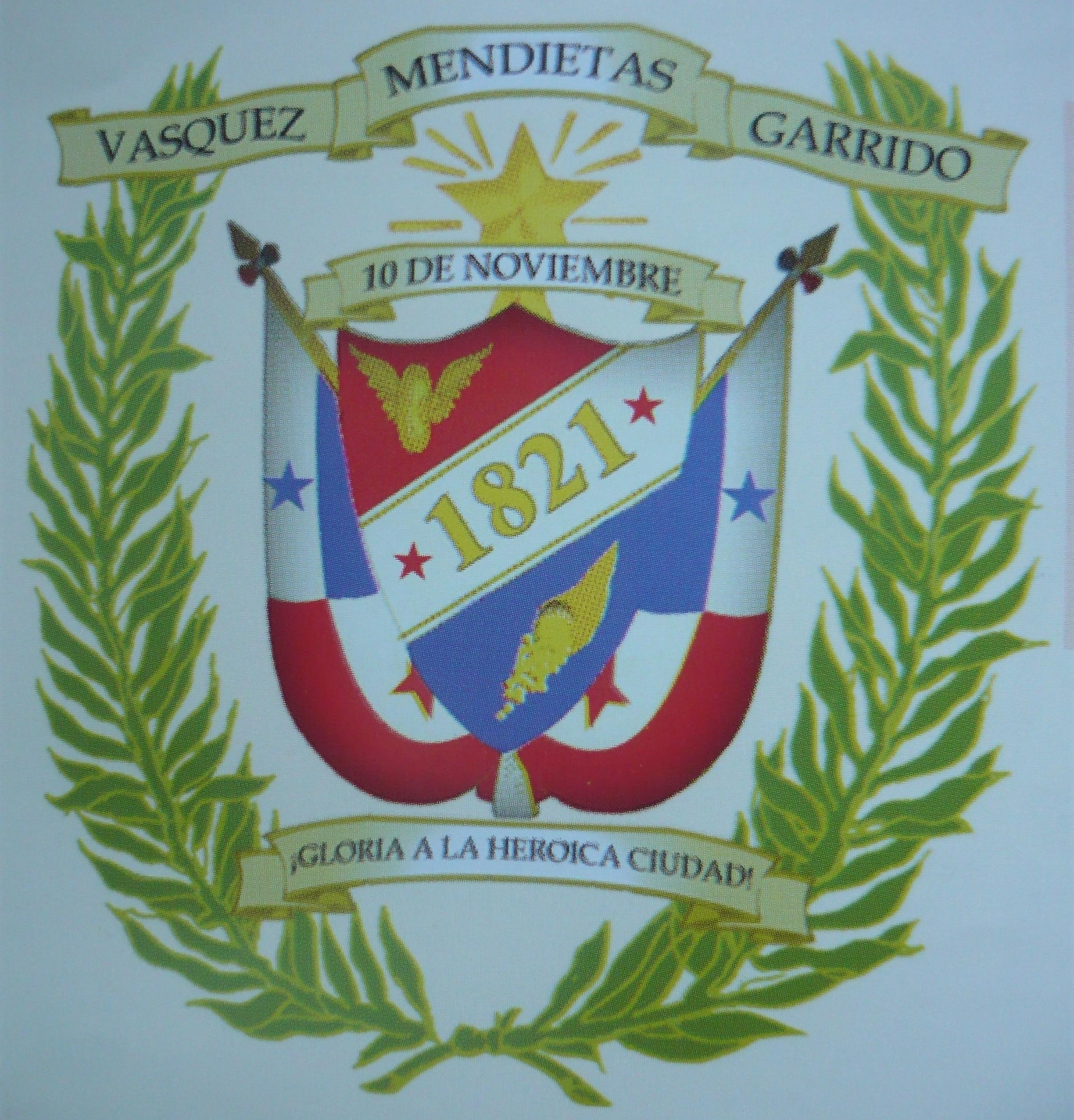 coat of arms of villa de los santos